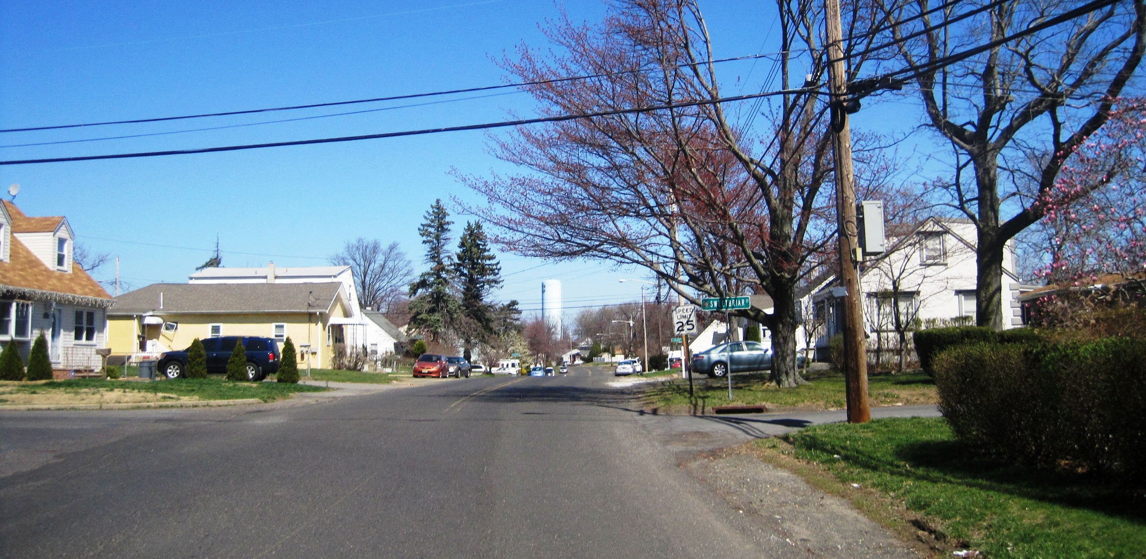 Photo of Cliffwood Beach, New Jersey, an unincorporated community within Aberdeen Township. Photo taken at the intersection of Shore Concourse (looking north) and Sweetbriar Street.